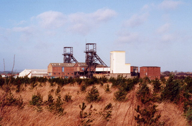 Ellington Colliery. Ellington which was recently closed was the last deep mine in Northumberland.